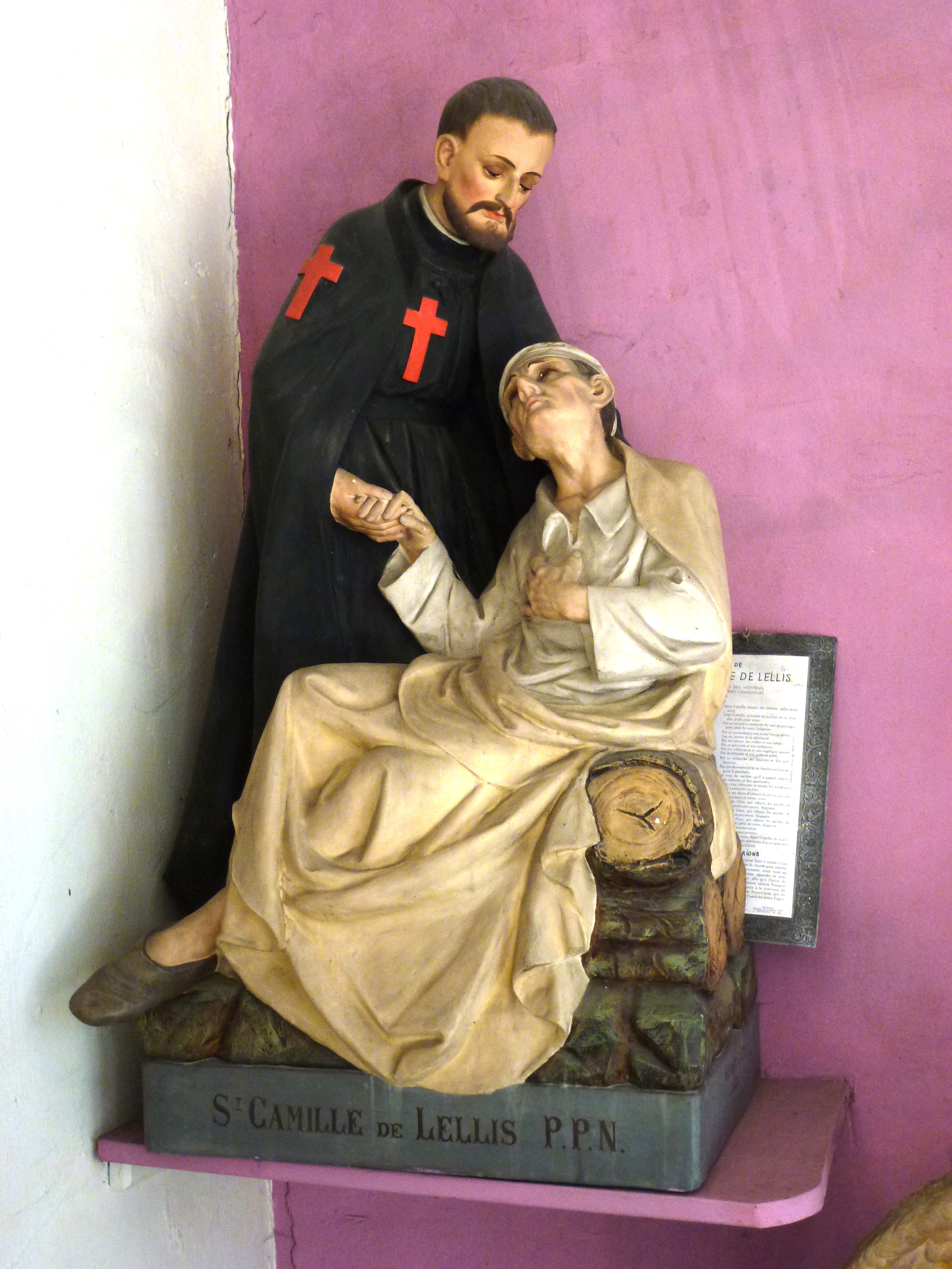 Beuvry-la-Forêt (Nord, Fr) église, statue St.Camille de lellis